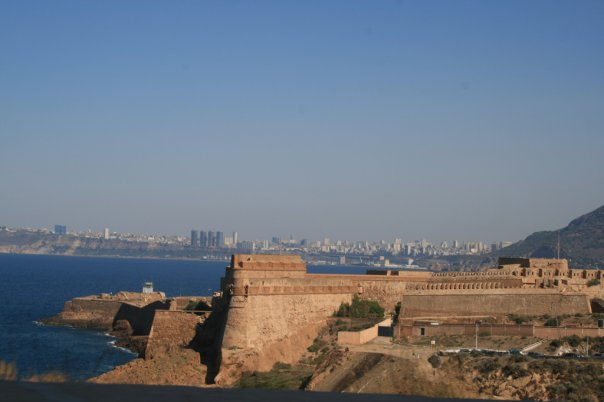 Stronghold of Mars el-Kabeer